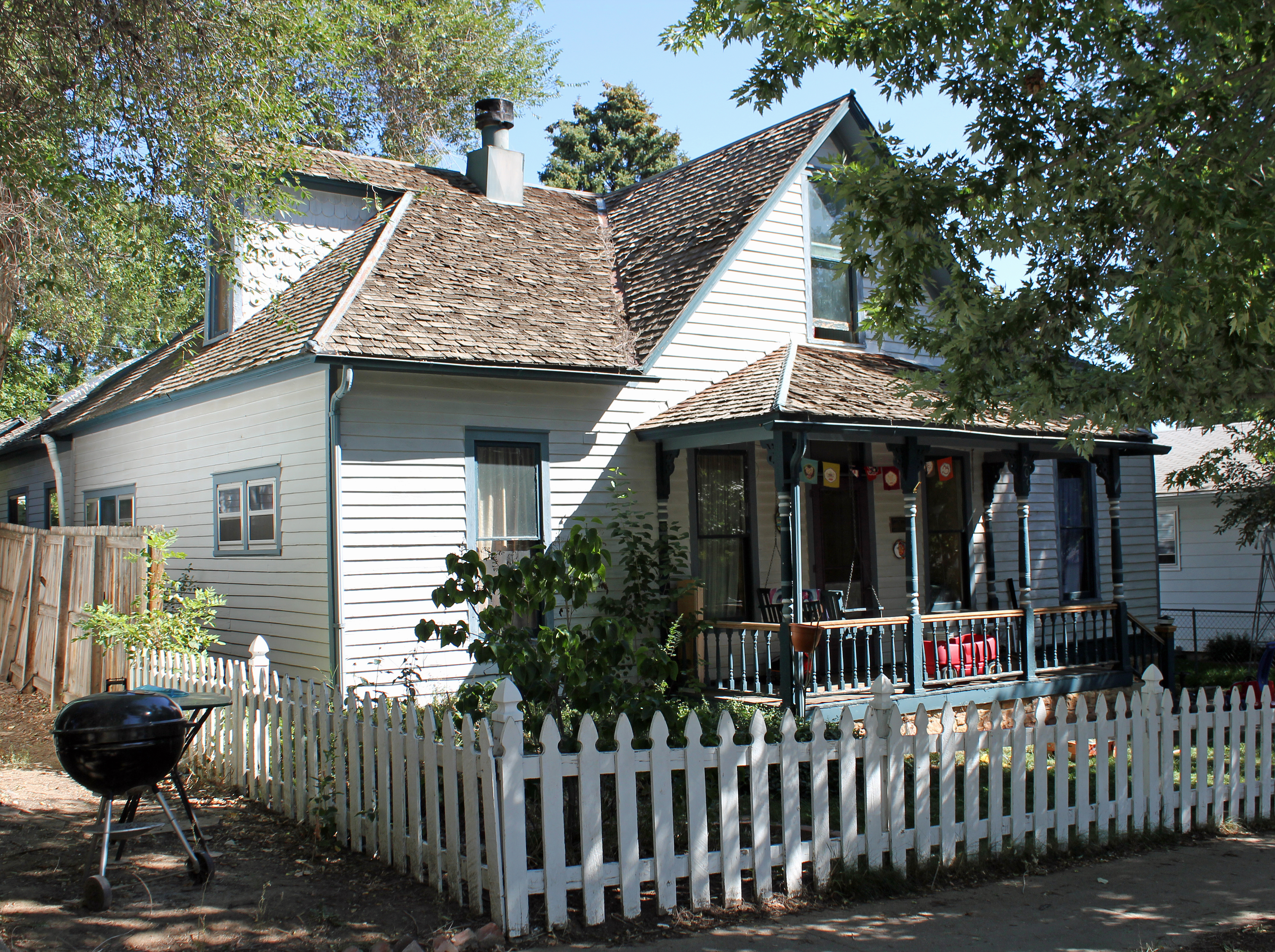 The Kullgren House, located at 209 East Cleveland Street in Lafayette, Colorado. The property is listed on the National Register of Historic Places.